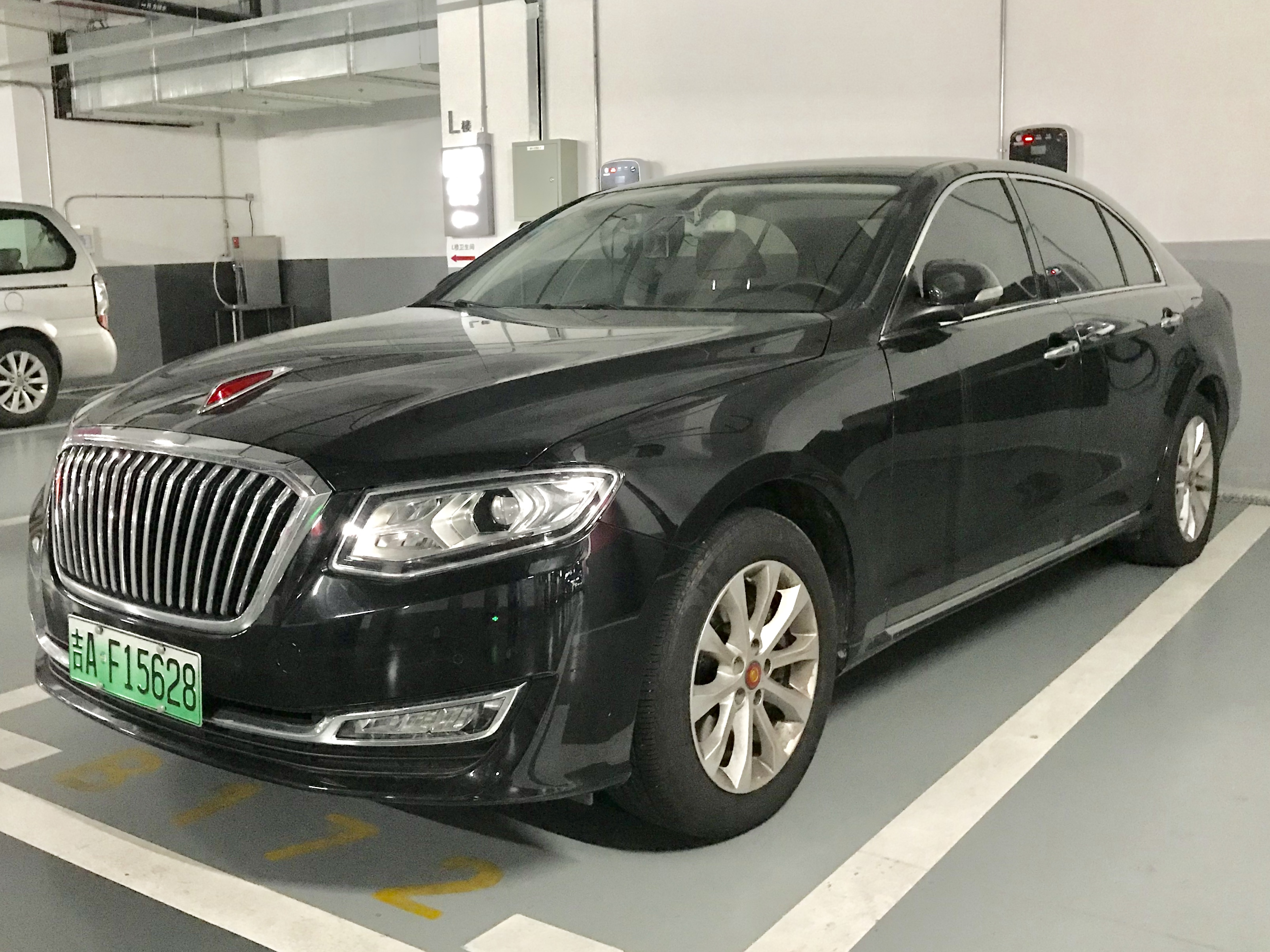 Hongqi H7 facelift plug-in hybrid